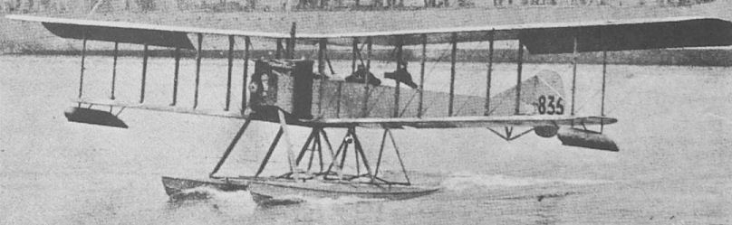 Photo of Wight Seaplane 840 samf4u.jpg